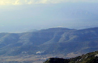 Mola de Godall, Godall (Montsià, Catalonia)